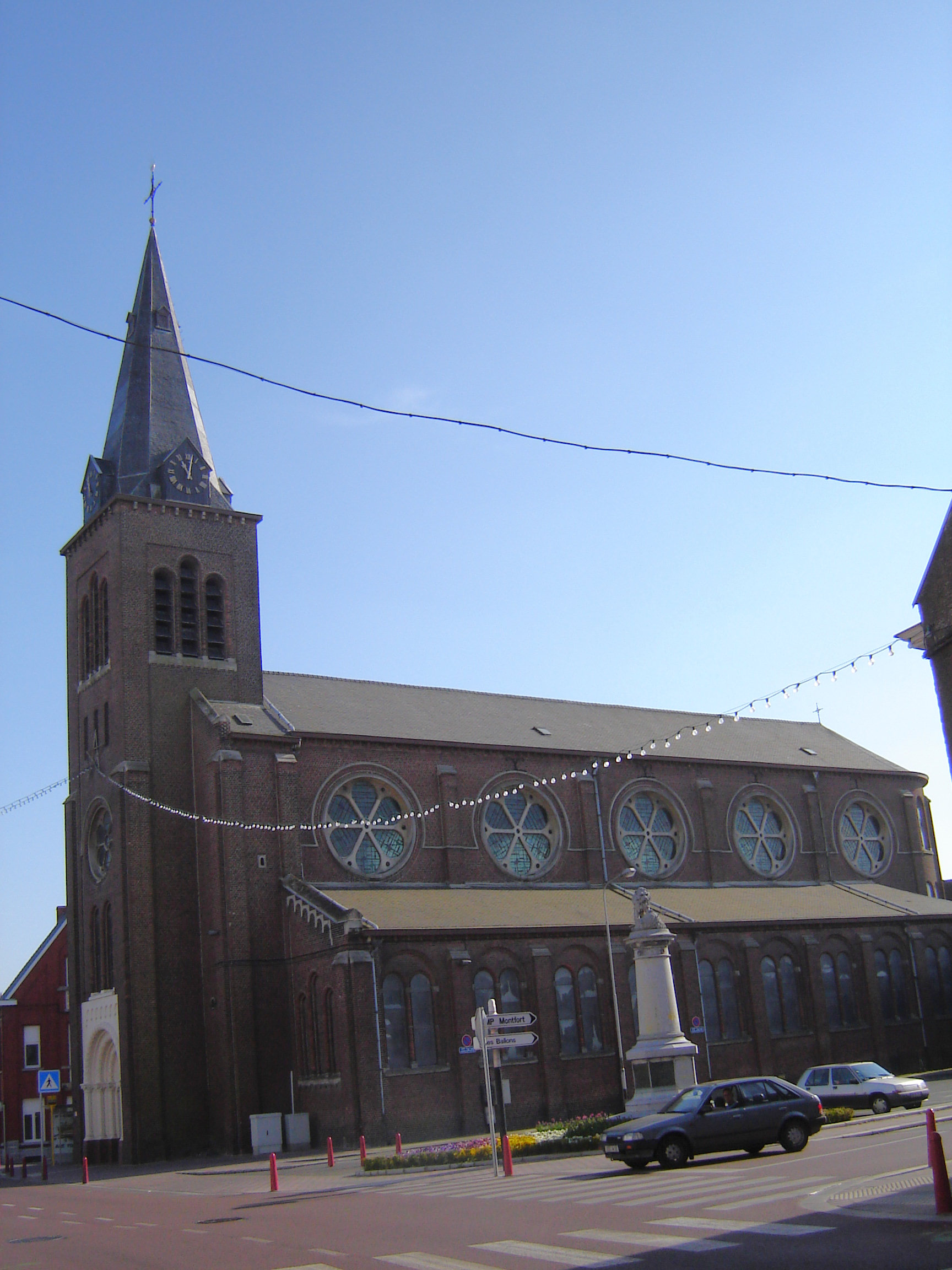 Church of Saint Maur in Herseaux, Mouscron, Hainaut, Belgium